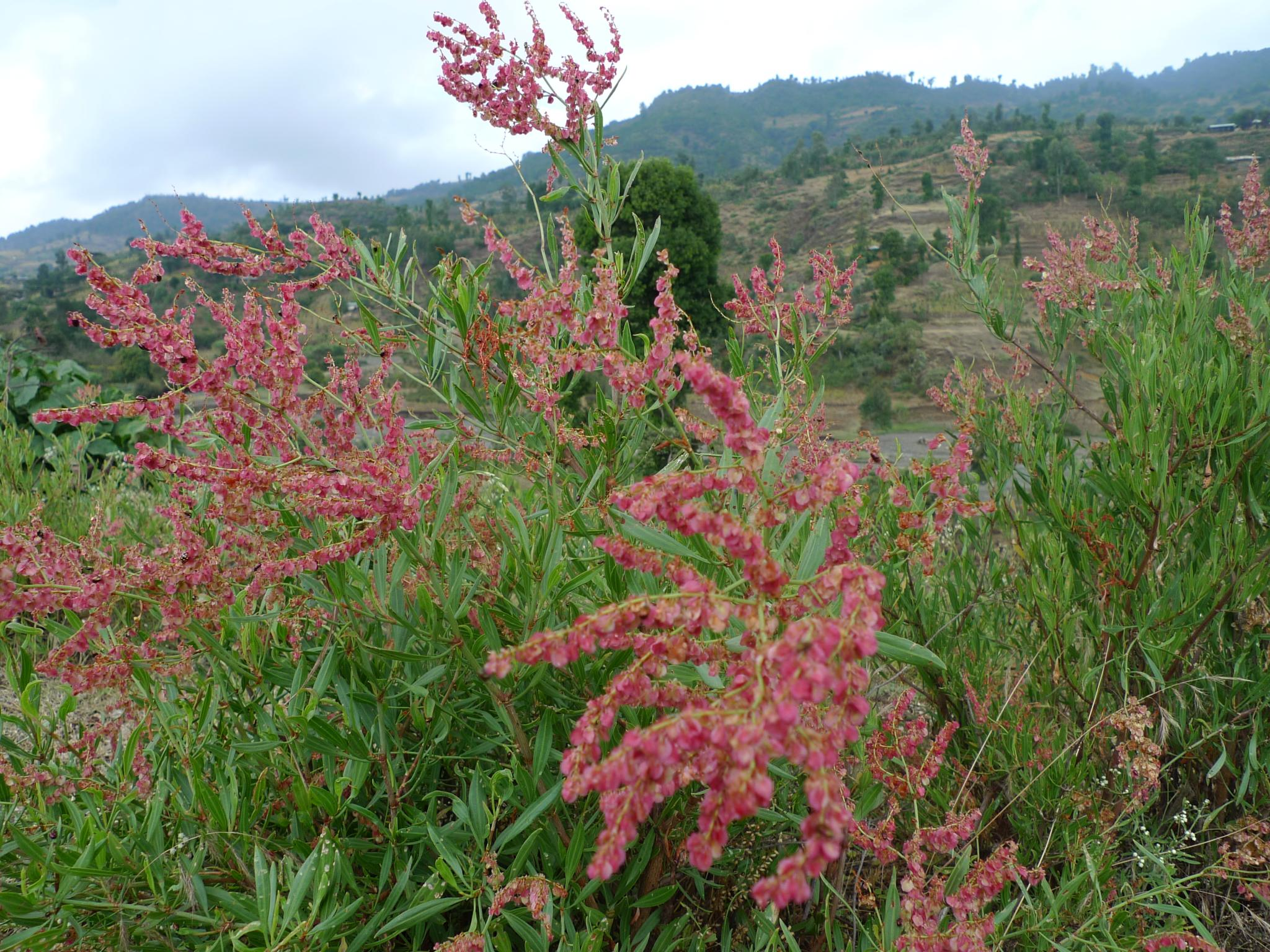 This species of dock is abundant in northern Ethiopia. If you look closely, you can see the thick veins (nerves) on the leaves that give it its name.